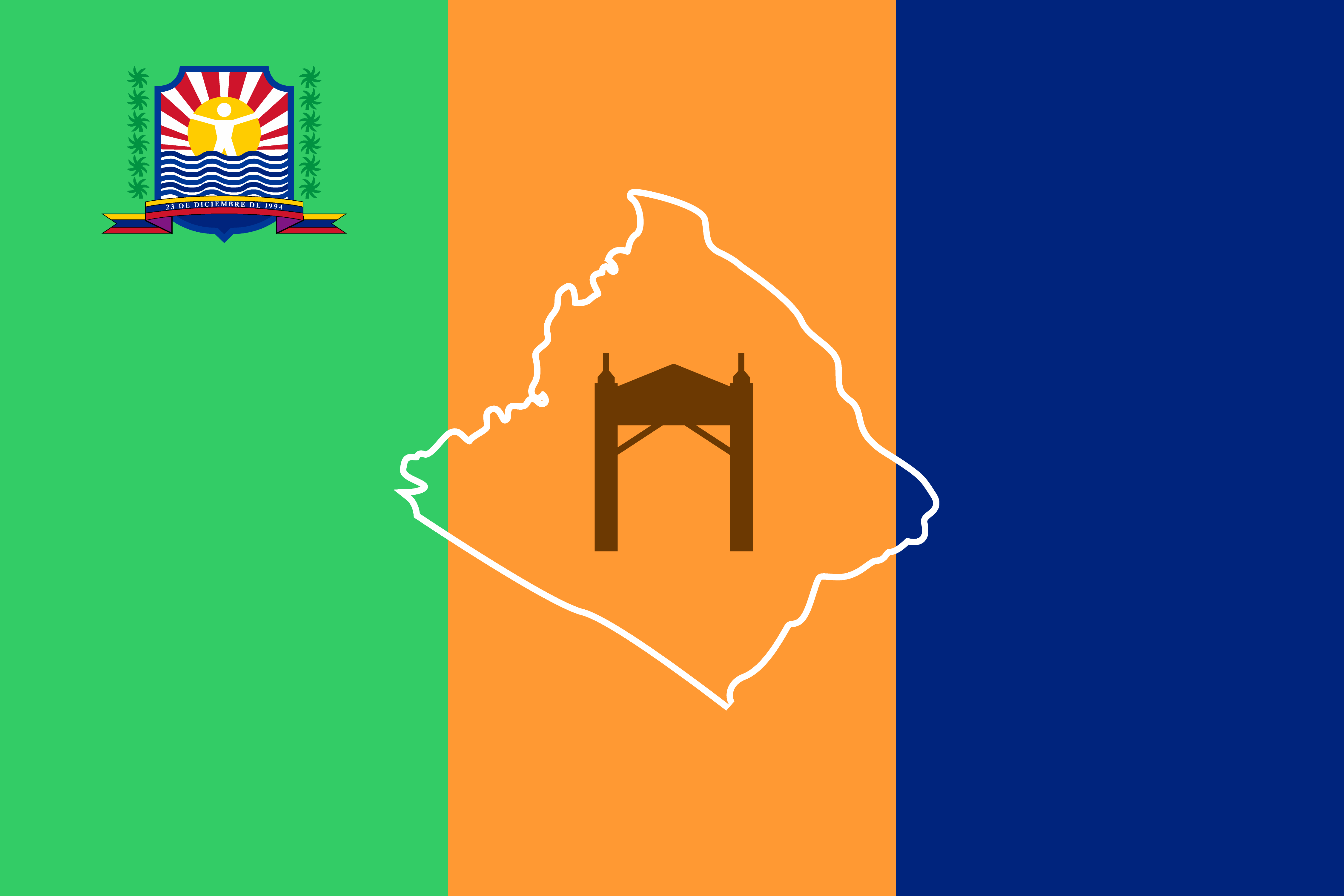 Flag of the San Juan de Capistrano Municipality, Anzoátegui State, Venezuela